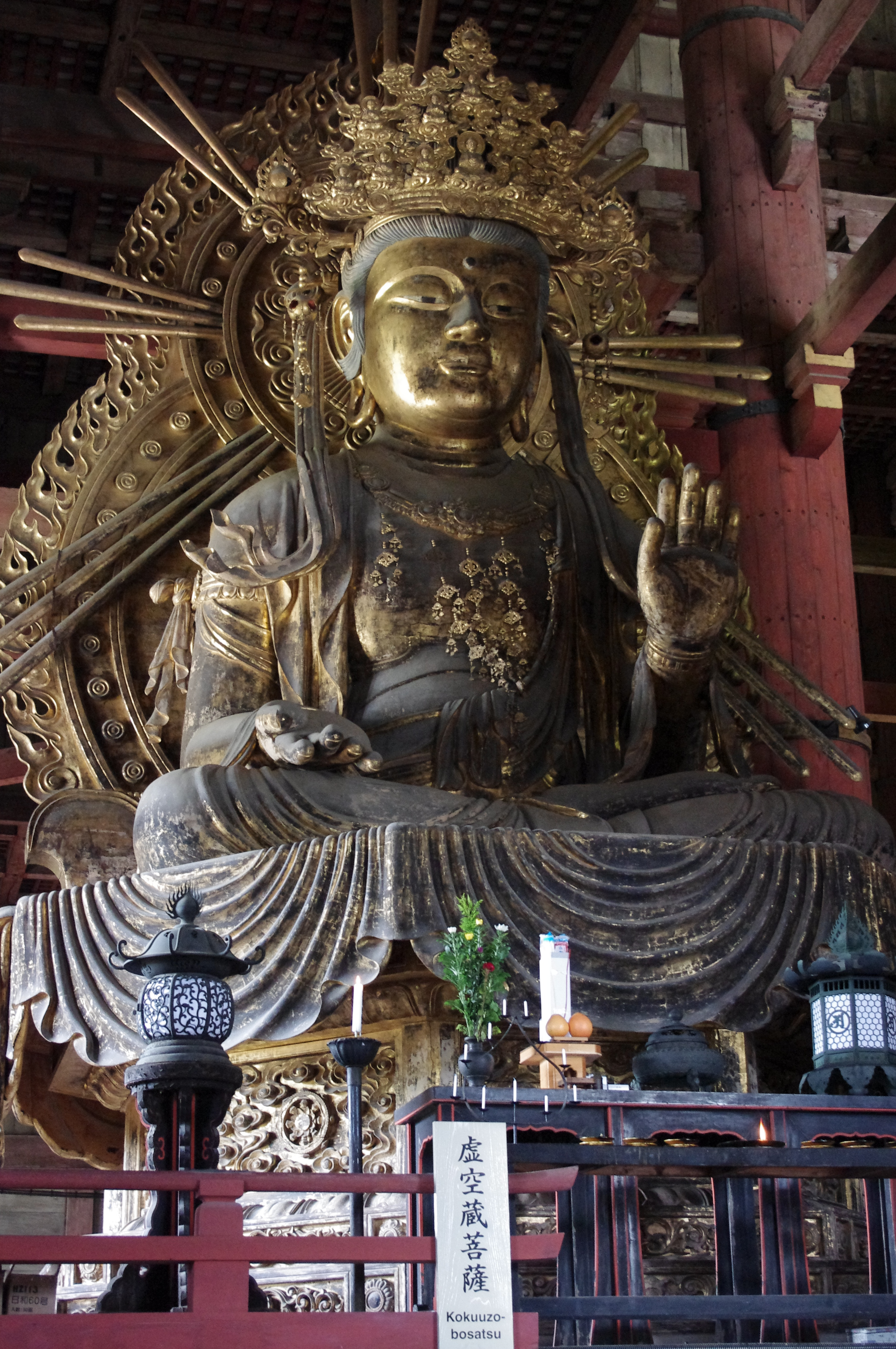 Statue of Kokūzō Bosatsu in Todaiji Temple, Nara, Japan